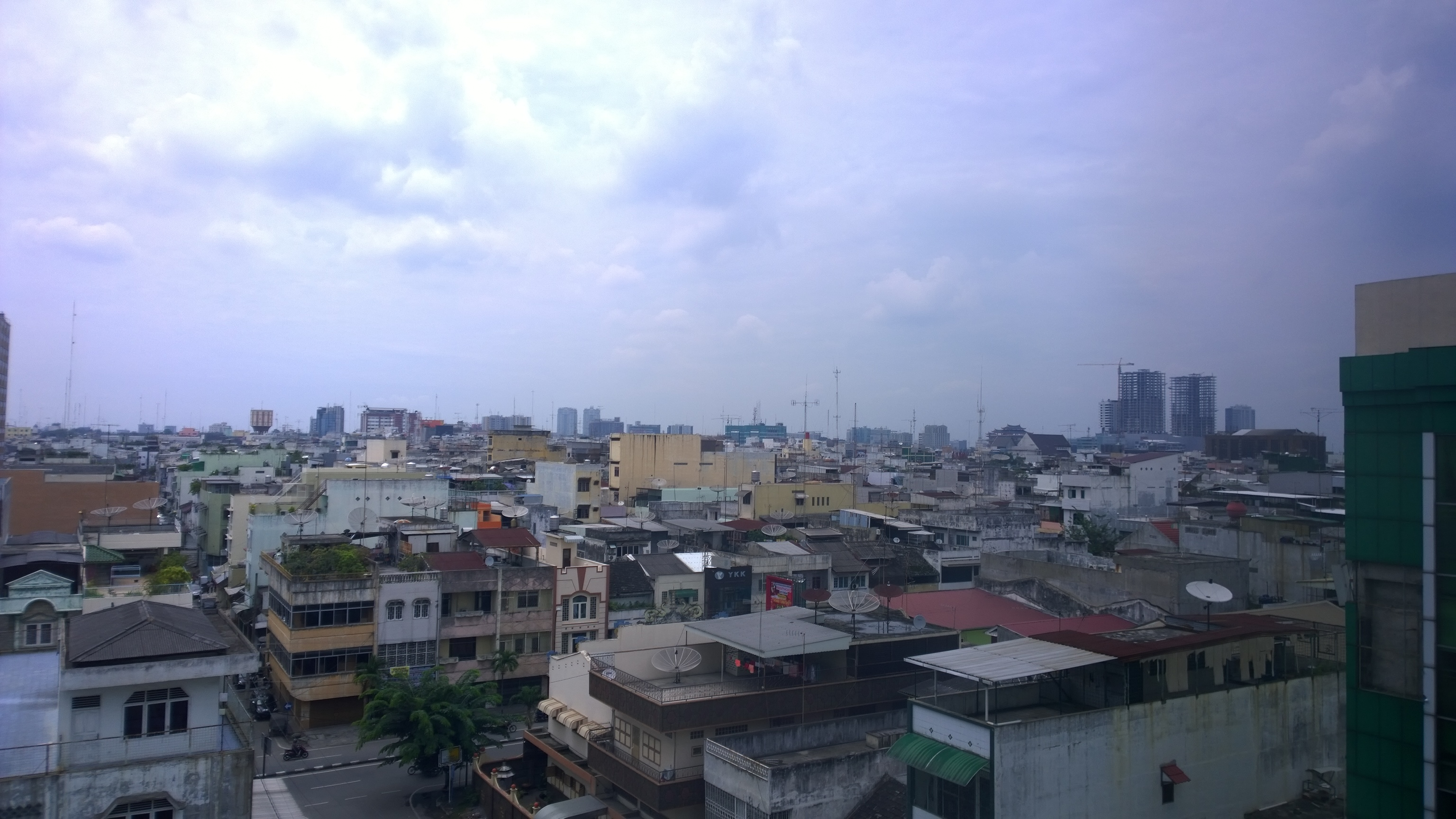 Skyline of Medan, Indonesia. Shot from Vihara Maitri at the fourth floor.